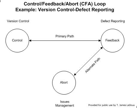 Control-Feedback-Abort Loop showing Version Control and Defect Reporting as Control and Feedback.